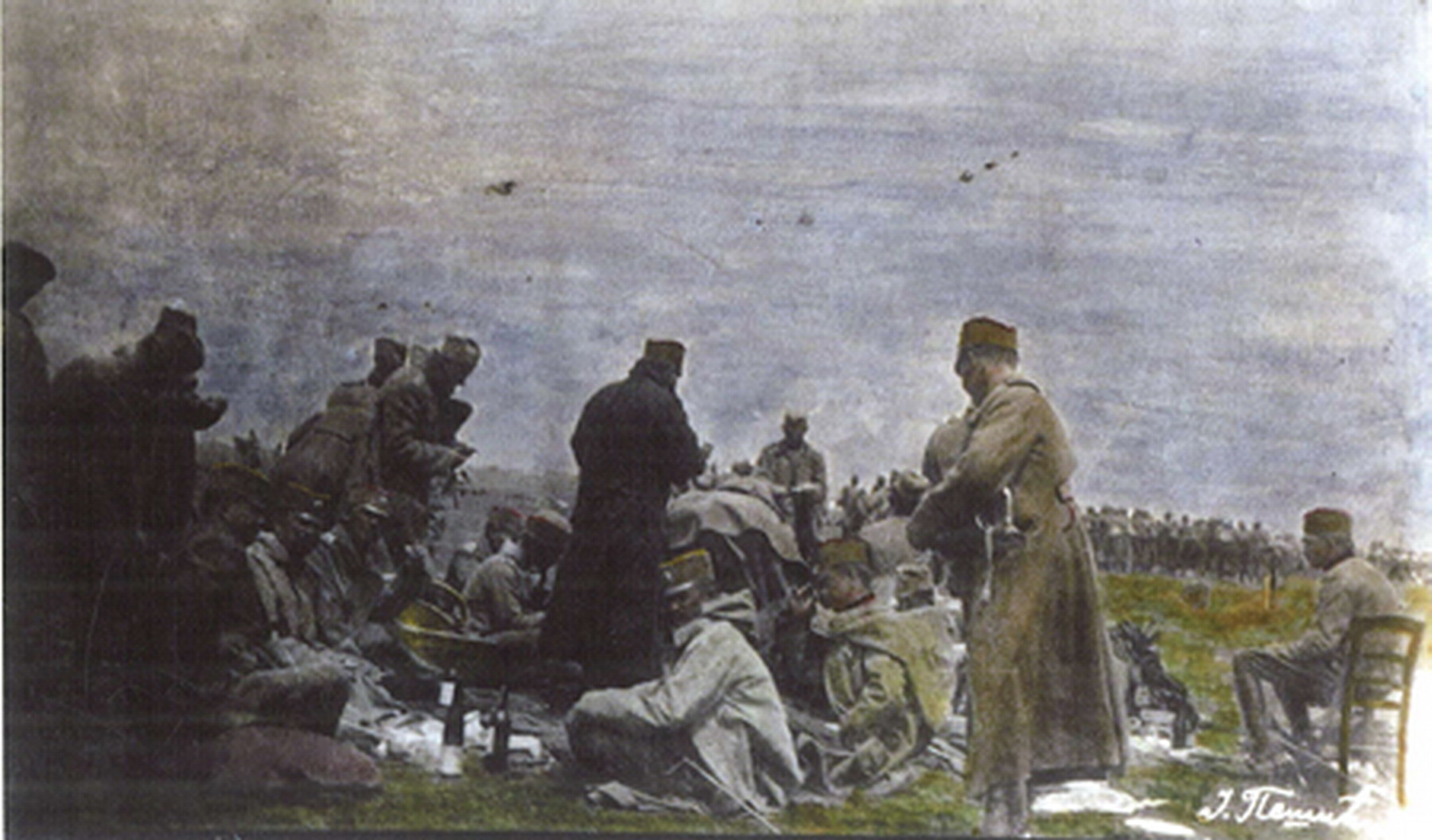 Military of the 1st Serbian Volunteer Division - free time on the frontline